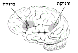 Wernicke and Broca areas in the brain - Hebrew